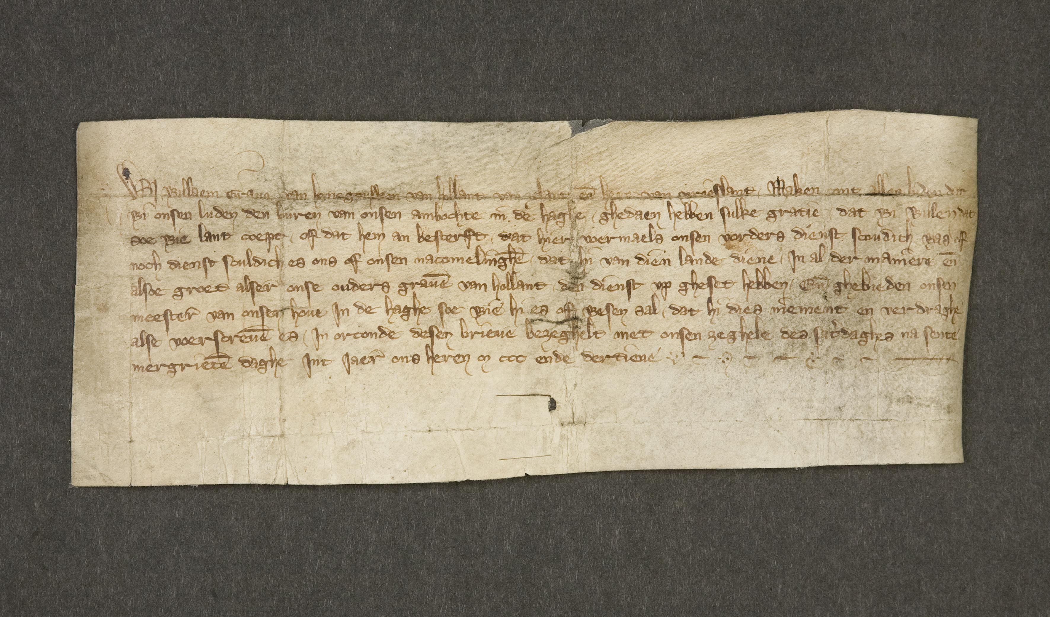 Charter (1313) of Count William III of Holland and Zeeland (1287-1337). This is the oldest document in the collection of the Municipal Archives of The Hague. Translation: We William, Count of Hainaut, of Holland, of Zeeland and Lord of Friesland, do make notice to all people, that we have done the inhabitants of our ambacht in The Hague such grace (as follows): That we want those who buy land, or those who inherit land, to be of service to us in all ways. Whether formerly owing us any further service or when still doing so, whether to us or to our offspring, and also concerning those lands that were brought into service by the former counts of Holland. And we command the master of our court in The Hague, that he allows no one who denounces this article, to uphold the rights as they were (formerly) described to them. This letter was sealed with our seal as a charter, on the Saturday after Saint Margaret’s Day (the 14th of July), in the year of our Lord 1313. (As any translation, it does not fully reflect the meaning of the original text, so feel free to revise it.)